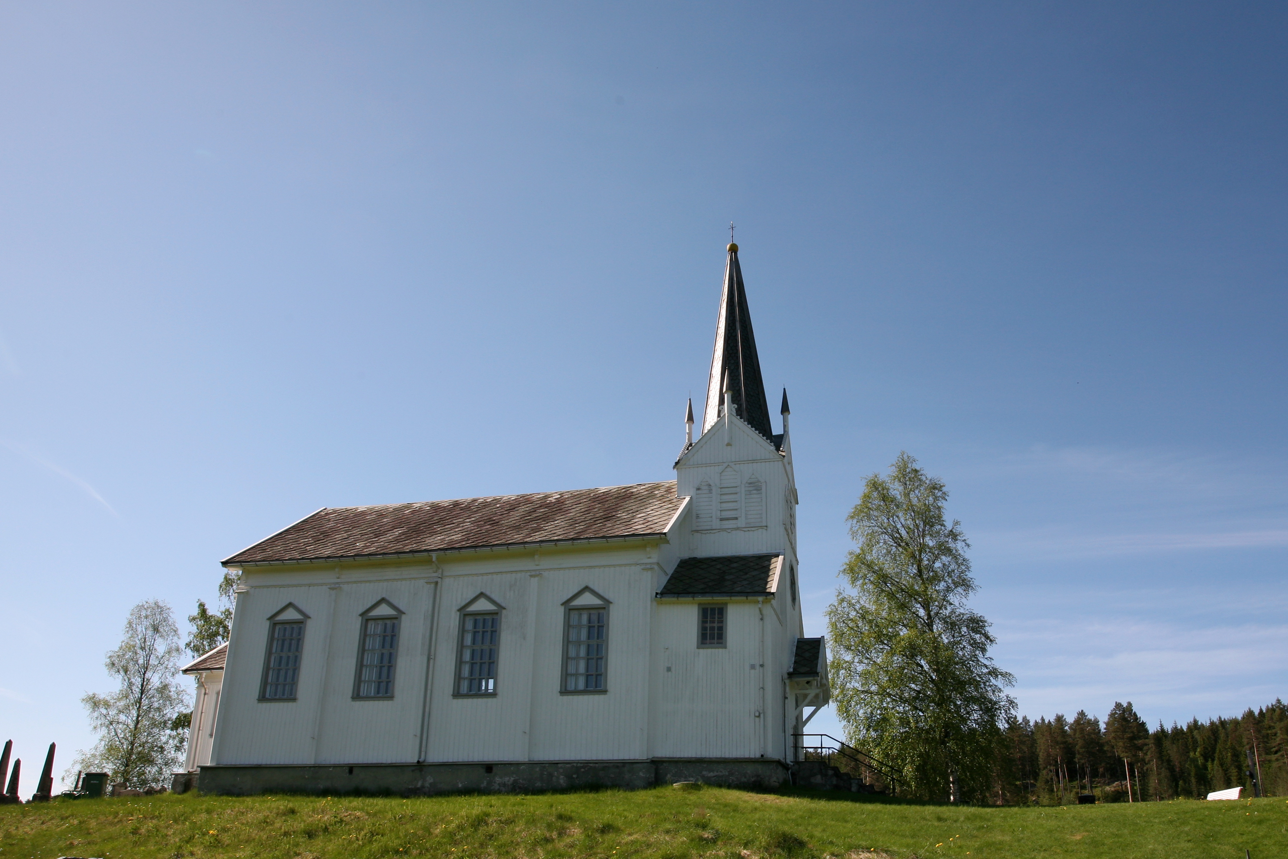 Picture of Lisleherad kirke (Telemark - Norway). Arch. Jacob Nordan